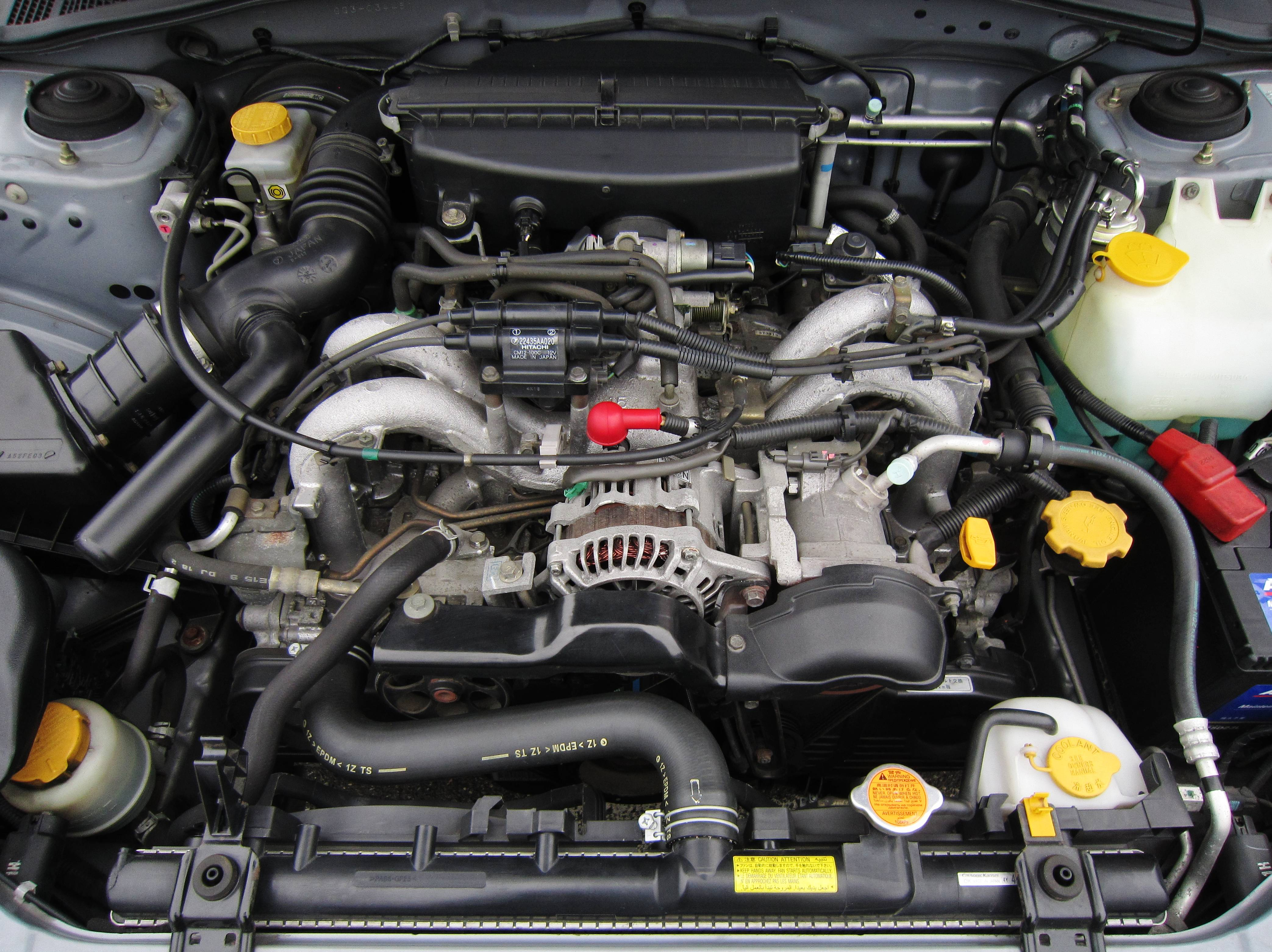 2004 Subaru Impreza Sport Wagon EJ15 engine.